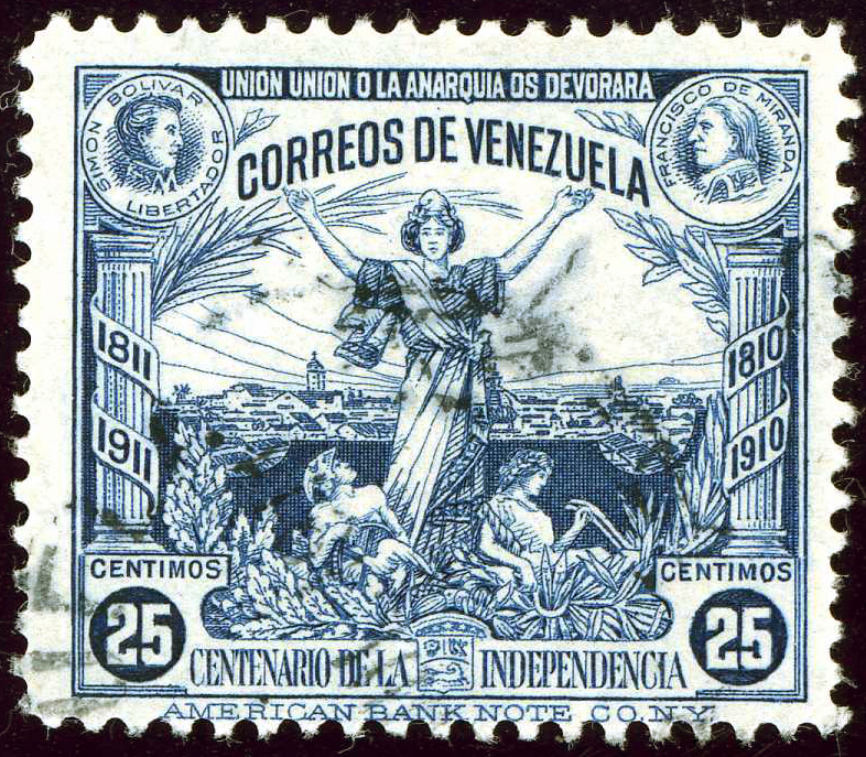 25 c Venezuela 1810-1910 Independance Allegory, vue of Caracas, Bolivar and Miranda portraits. Michel N°86, Yvert 124.